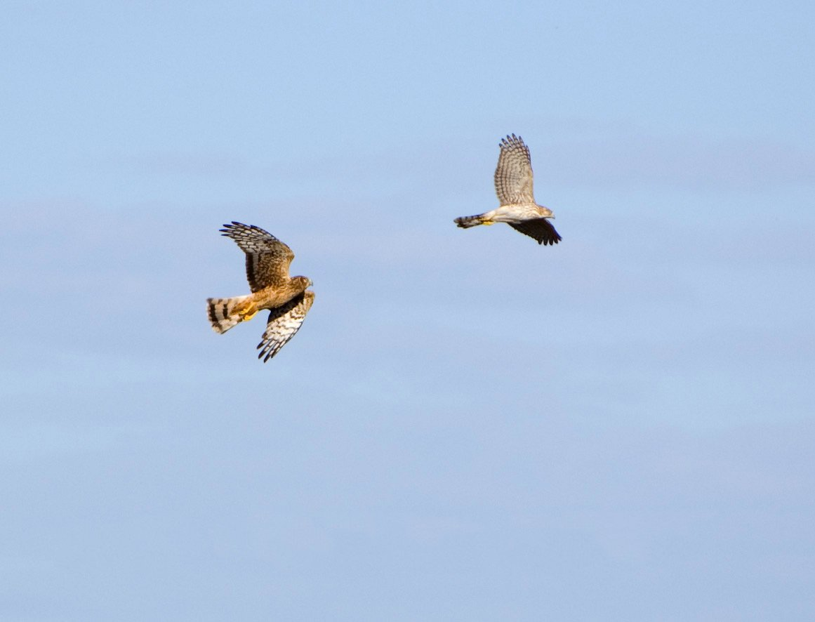 Female Northern Harrier (Circus hudsonius) chasing Cooper's Hawk (Accipiter cooperii)